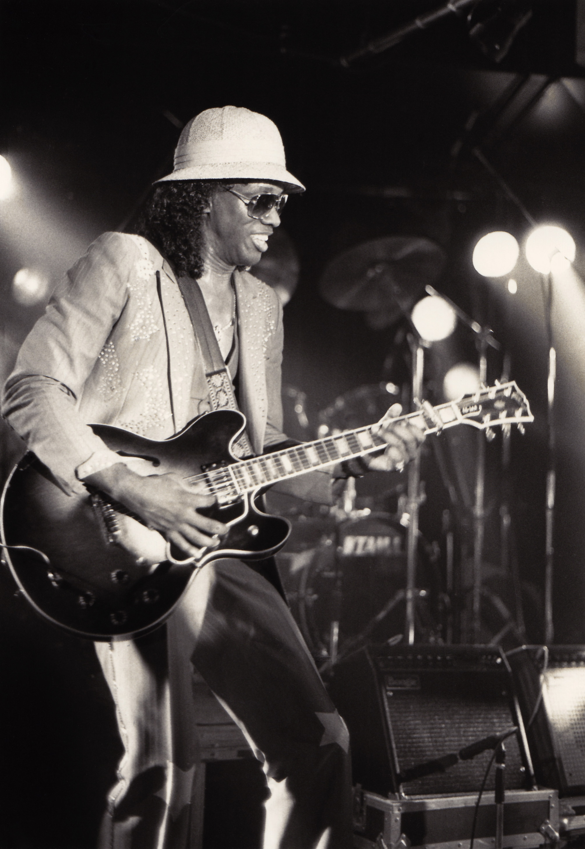 Johnny Guitar Watson on stage in Bielefeld/Germany in the venue PC69 on thursday, 11th June 1987